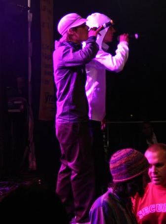 Hip hop duo Snook performing at Storsjöyran, July 2006.